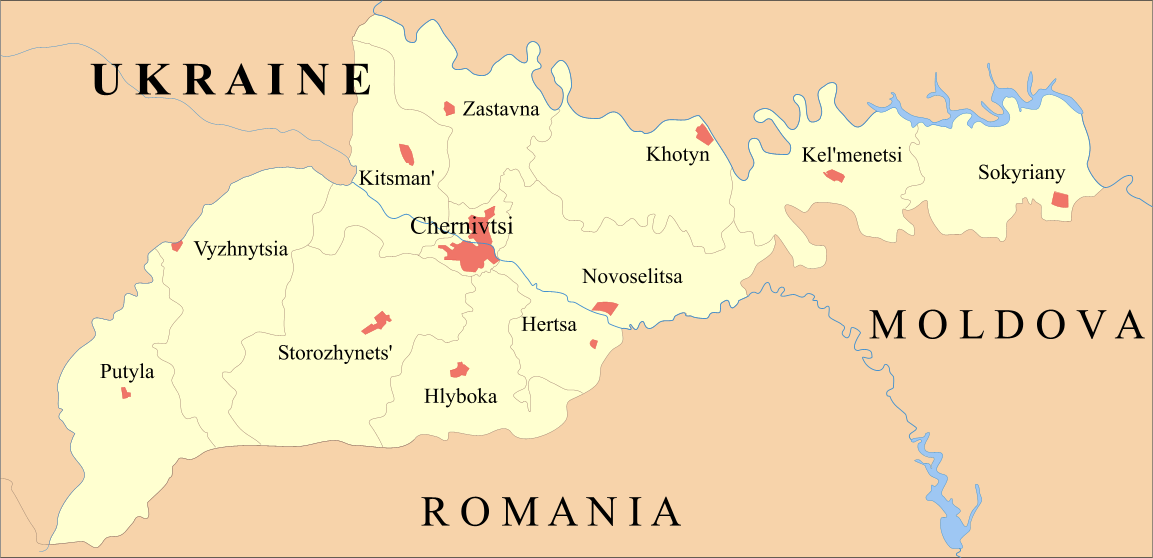 Raions of Chernivtsi Made by me, based on Ukrainian road map Category:Ukraine regional maps Summary Raions of Chernivtsi Made by me, based on Ukrainian road map